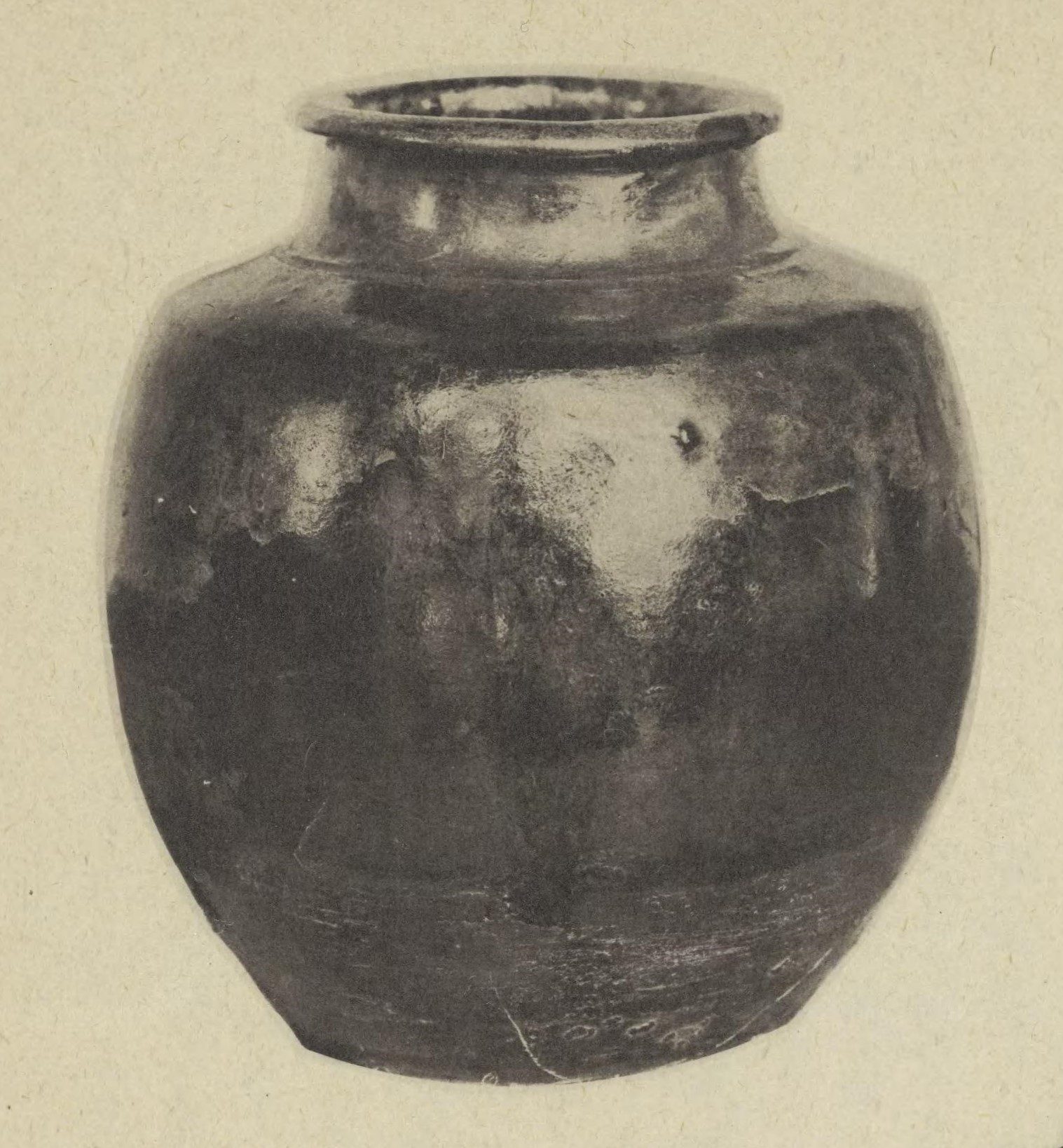 Front view of Nitta Katatsuki, Important Art Object of Japan. The collection of Tokugawa Museum.